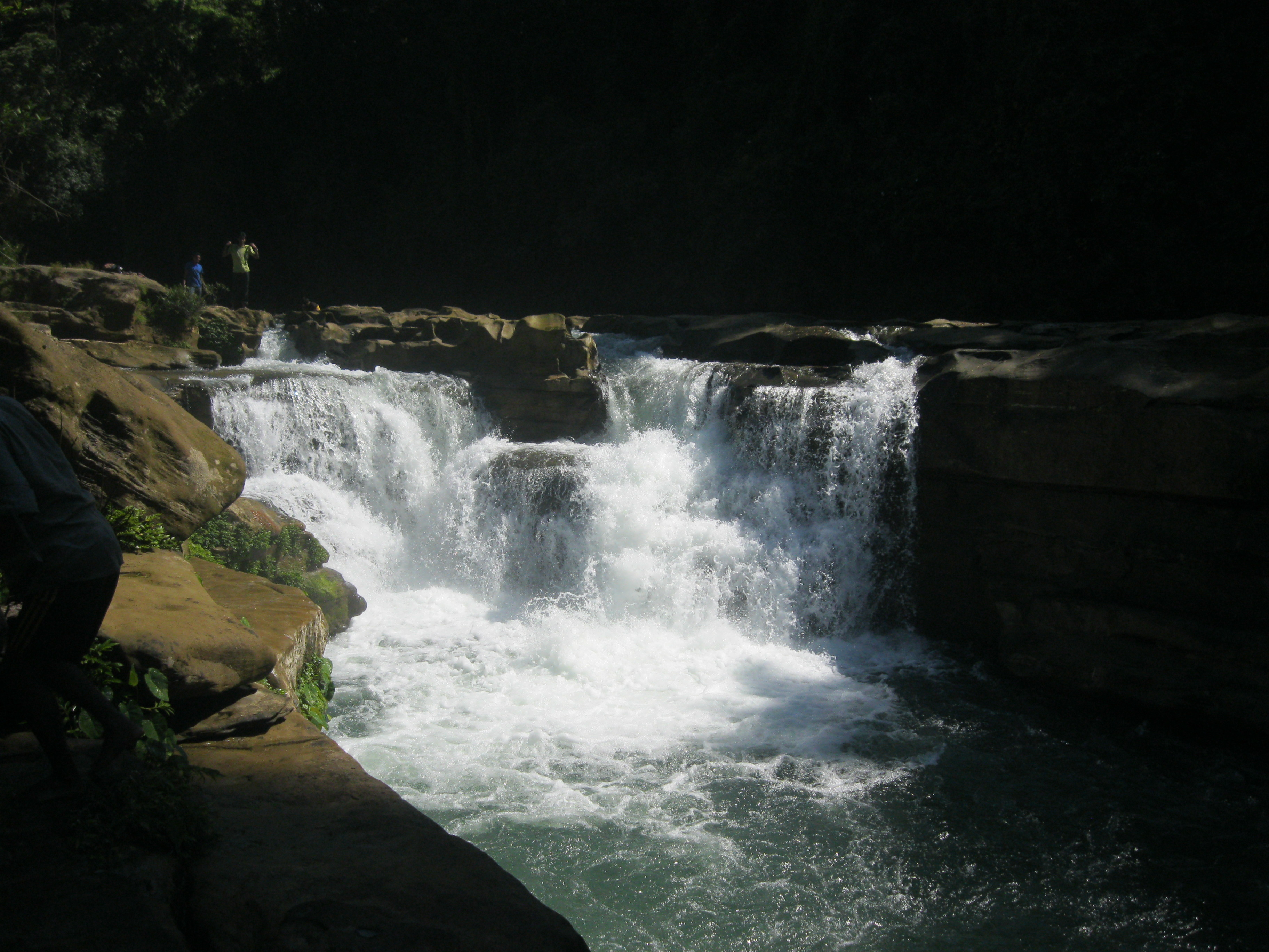 Nafakhum Falls is Located in Bandarban District in Bangladesh.